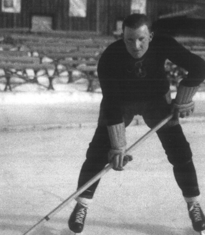 Hockey player Ladislav Troják, Košice, Slovakia